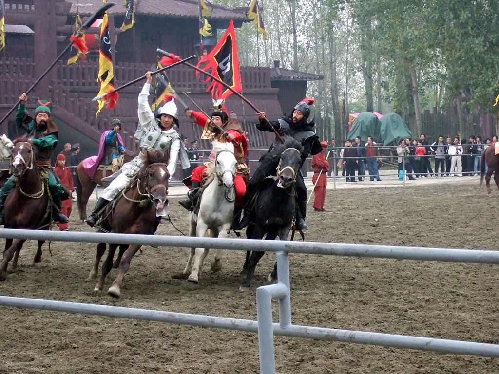 Stuntmen, acting as (left to right) Guan Yu, Lu Bu, Liu Bei, and Zhang Fei, dueling on horses